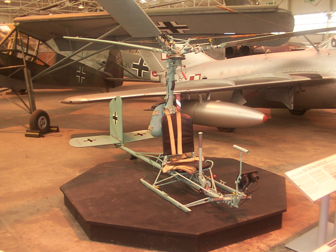 Focke Achgelis Fa 330 (serial no 100503) at RAF Museum Cosford